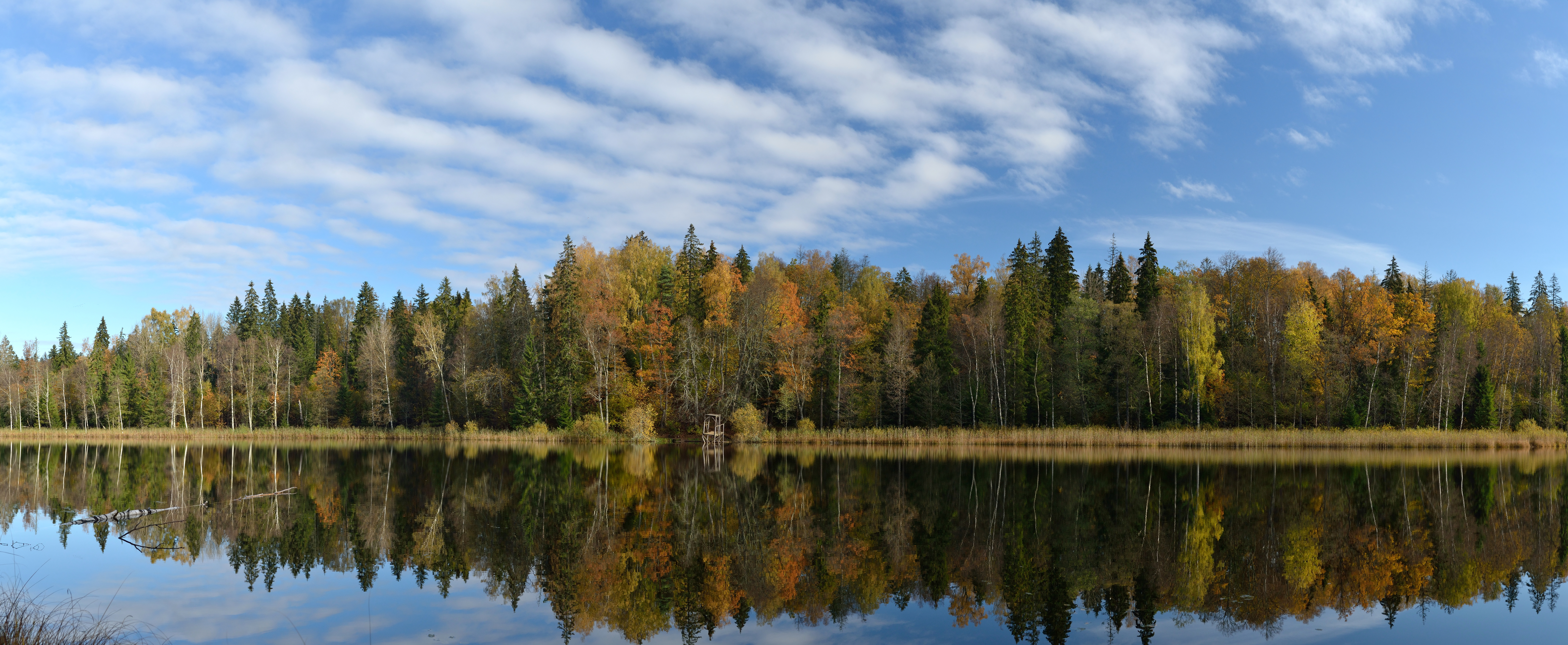 Lake Neeruti Tagajärv, Neeruti Landscape Reserve. Surface area 3.3 ha, deepness as far as 8.6 m.